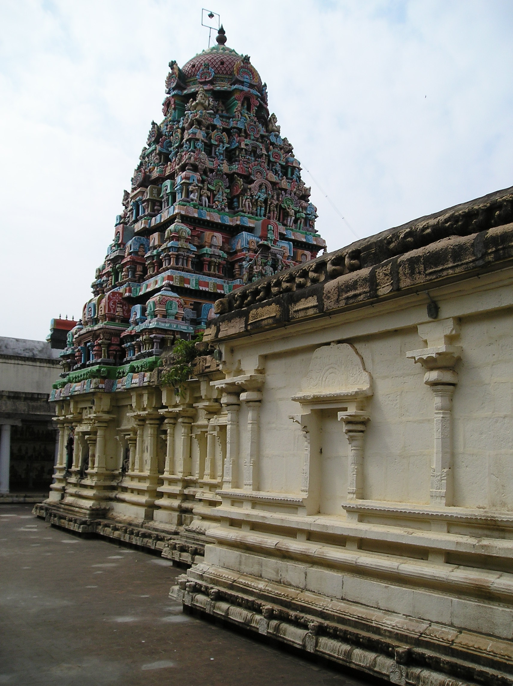 A view of the gopuram of the historic Ramaswamy temaple in kumbakonam